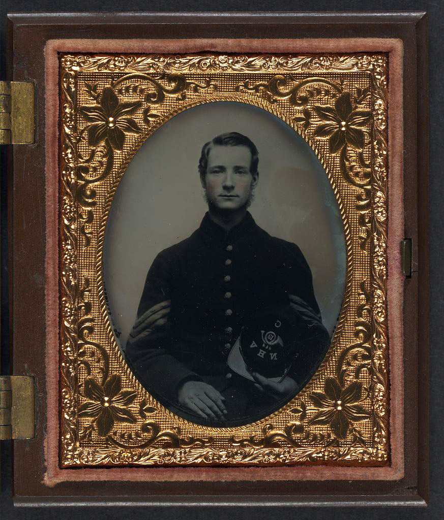 [Unidentified soldier in Union sergeant's uniform with Company C, 13th New Hampshire Infantry Regiment kepi] [between 1861 and 1865] 1 photograph : ninth-plate ambrotype, hand-colored ; 7.6 x 6.5 cm (case) Notes: Title devised by Library staff. Case: Berg, no. 3-340. Gift; Tom Liljenquist; 2010; (DLC/PP-2010:105). Subjects: United States.--Army.--New Hampshire Infantry Regiment, 13th (1862-1865)--People. Soldiers--Union--1860-1870. Military uniforms--Union--1860-1870. United States--History--Civil War, 1861-1865--Military personnel--Union. Format: Portrait photographs--1860-1870. Ambrotypes--Hand-colored--1860-1870. Repository: Library of Congress, Prints and Photographs Division, Washington, D.C. 20540 USA, Part Of: Ambrotype/Tintype filing series (Library of Congress) (DLC) 2010650518 Liljenquist Family collection (Library of Congress) (DLC) 2010650519 More information about this collection is available at Persistent URL: Call Number: AMB/TIN no. 2513